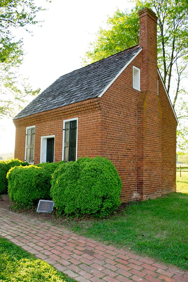 Callands Clerks Office